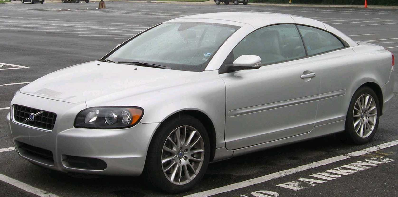 2007 Volvo C70 photographed in USA.